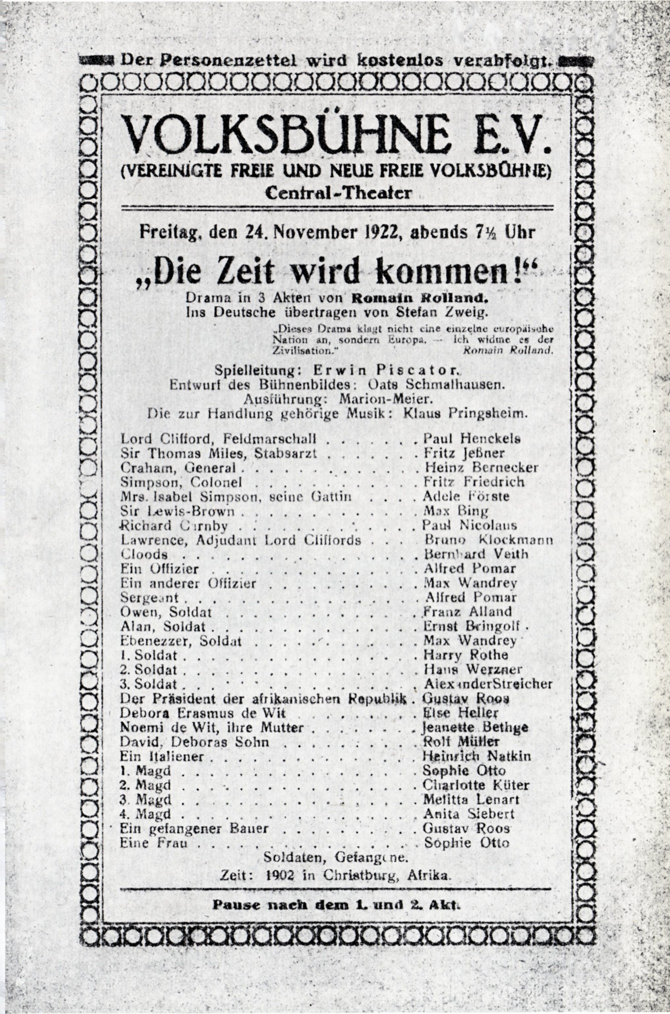 Theatre programme sheet (Programmzettel) to Erwin Piscator's production of Romain Rolland "Die Zeit wird kommen", Central-Theater, Berlin, 17 November 1922